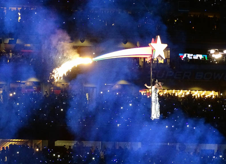 Katy Perry performing "Firework" at halftime of Super Bowl XLIX at University of Phoenix Stadium in Glendale, Ariz., on Feb. 1, 2015.